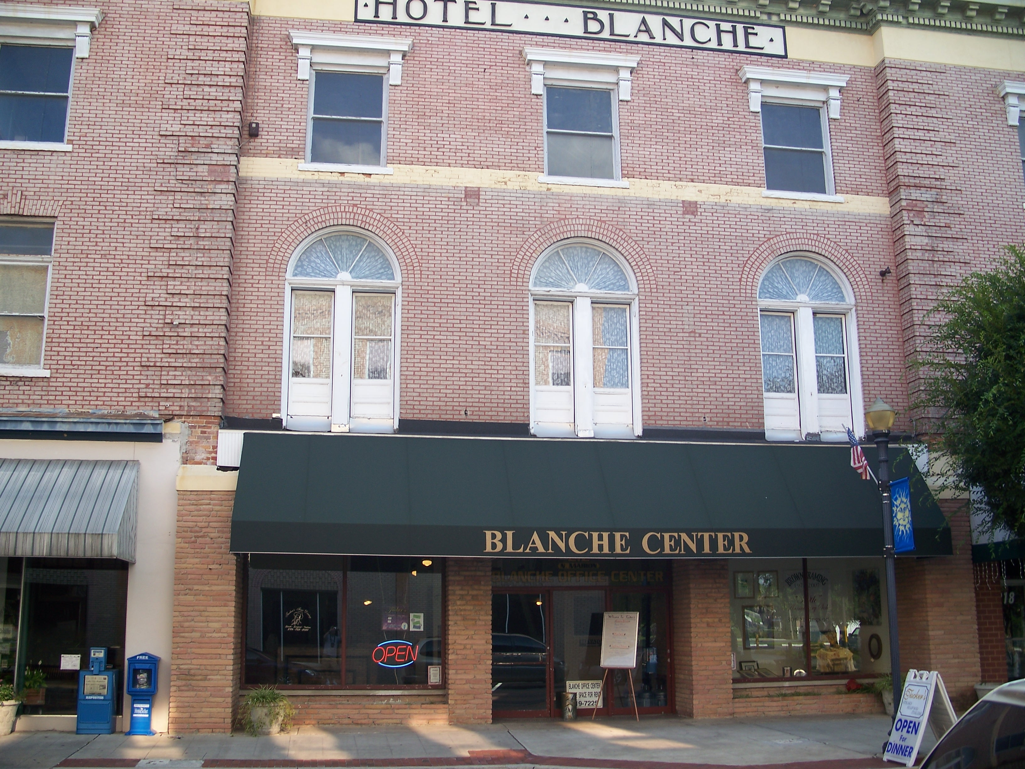 Hotel Blanche, in the Lake City Historic Commercial District, in Lake City, Florida